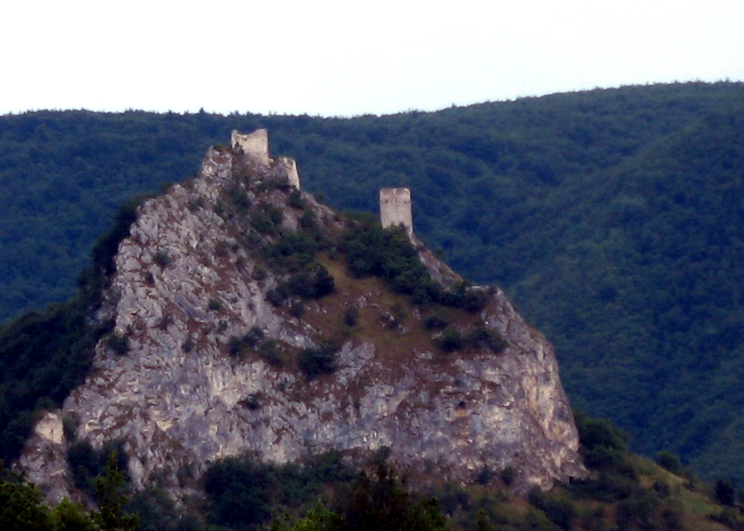 Mileševac fortress, view from Mileševa Monastery,near Prijepolje, Serbia.